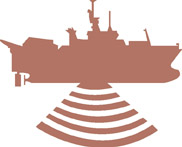 Marine Institute, Galway, Ocean Science Services Symbol